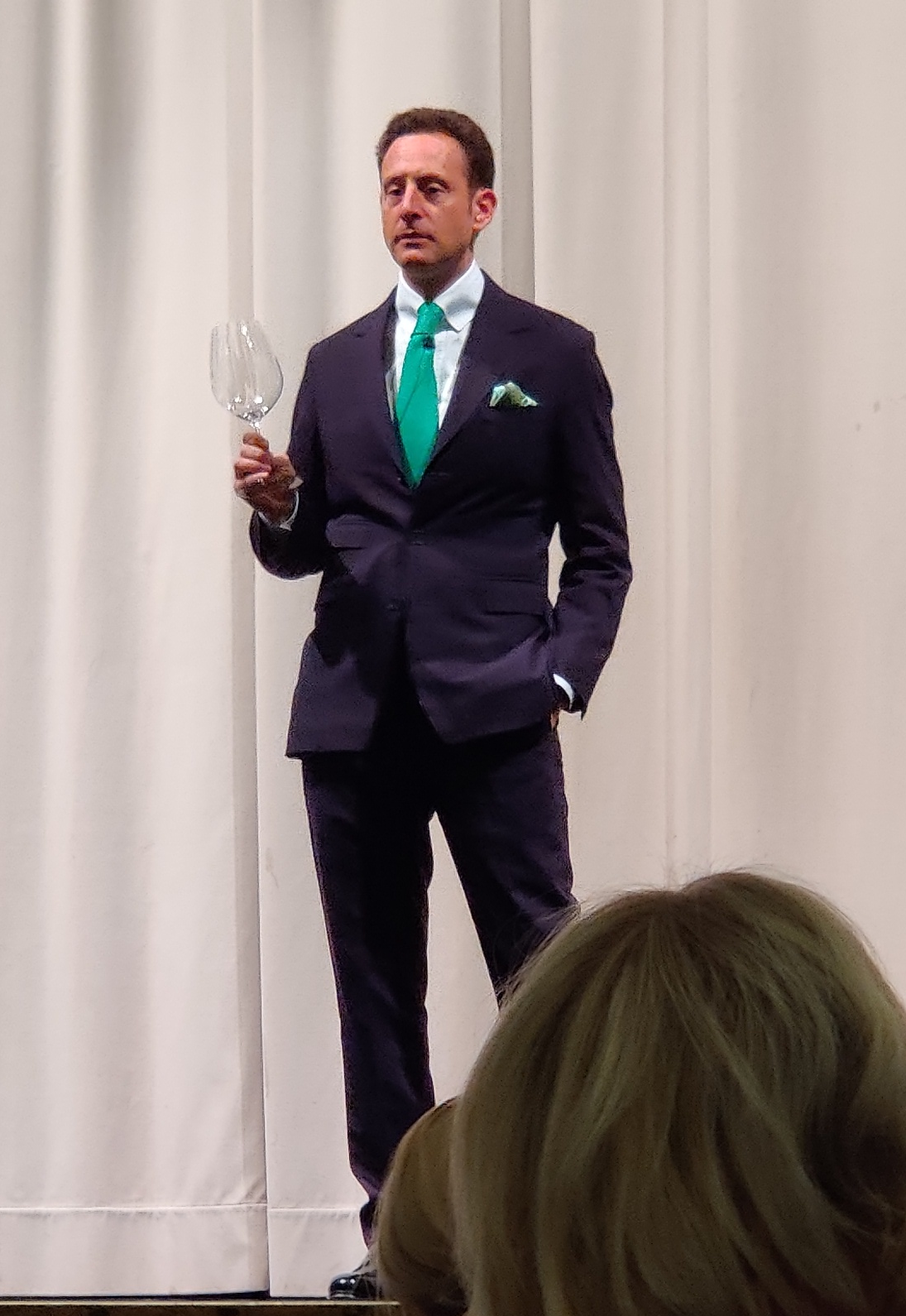 Maximilian Riedel in Helsinki, Finland, October 2019.